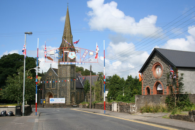 Cullybackey. Main street Cullybackey Co.Antrim.